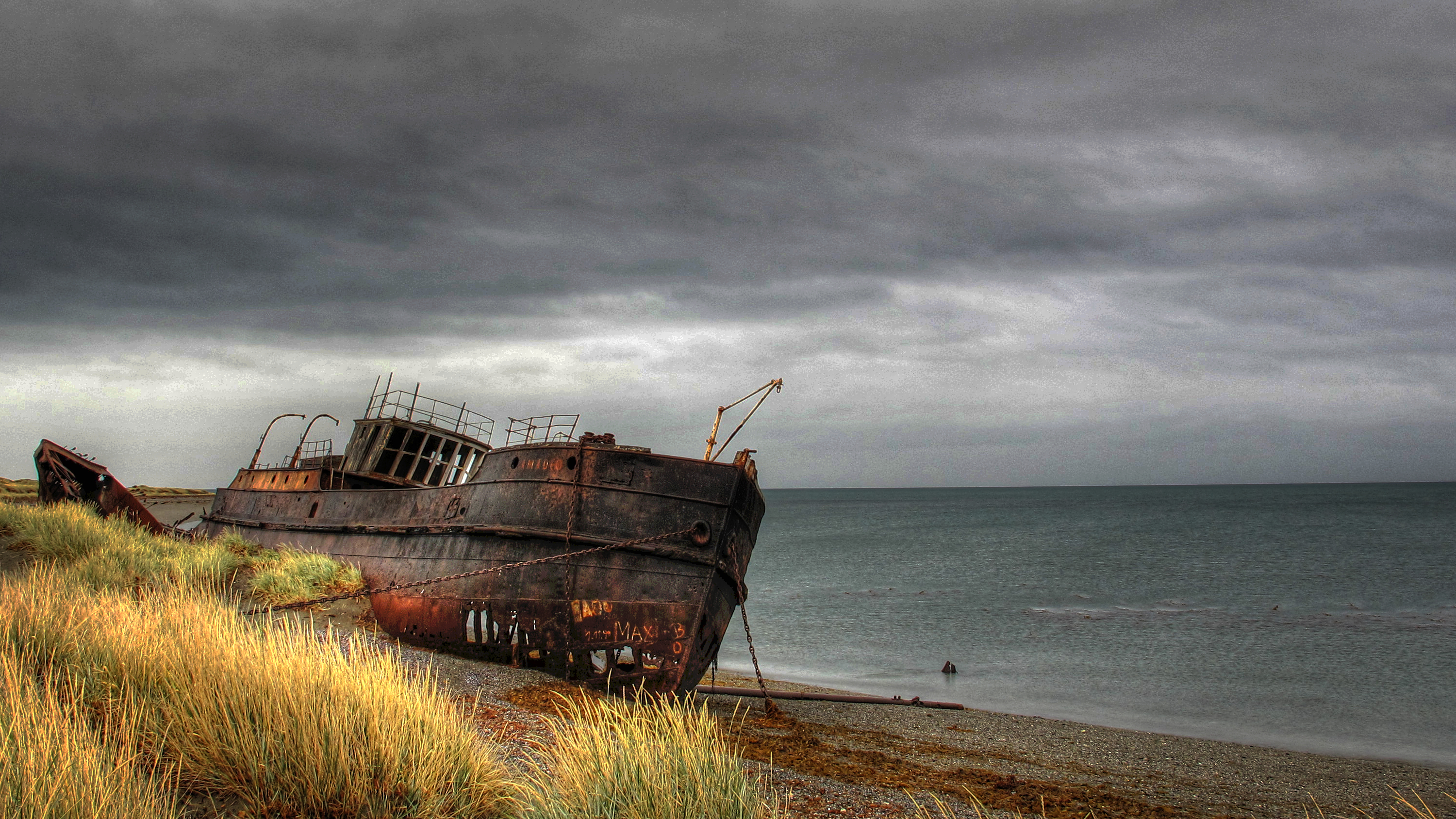 Beached wreck of the steamship Amadeo at San Gregorio in Magellanes, southern Chile. The Liverpool Forge Co built her in 1884 for Argentine Steam Lighter Co, a subsidiary of Lamport and Holt. In 1892 she was sold to J Menéndez of Punta Arenas, which in 1909 was renamed SA Ganadera y Comercial Menéndez y Behety. The ship's registry was changed to Magellanes in 1929. The ship was beached at San Gregorio in 1932 and has remained there ever since.